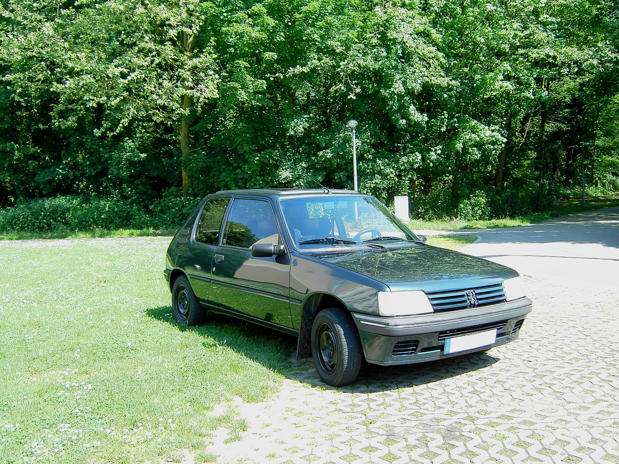 Beschreibung: Peugeot 205 Forever (1.1l, 60PS, Bj 1994, 190111 km bei dieser Aufnahme) Quelle: selbst aufgenommen Fotograf: CrazyD, 28. Mai 2005 Lizenzstatus: GNU FDL Description: Peugeot 205 Forever (1.1l, 60HP, year of construction 1994) Source: photo was taken by my self Photographer: CrazyD, 28 May 2005 Licence: GNU FDL